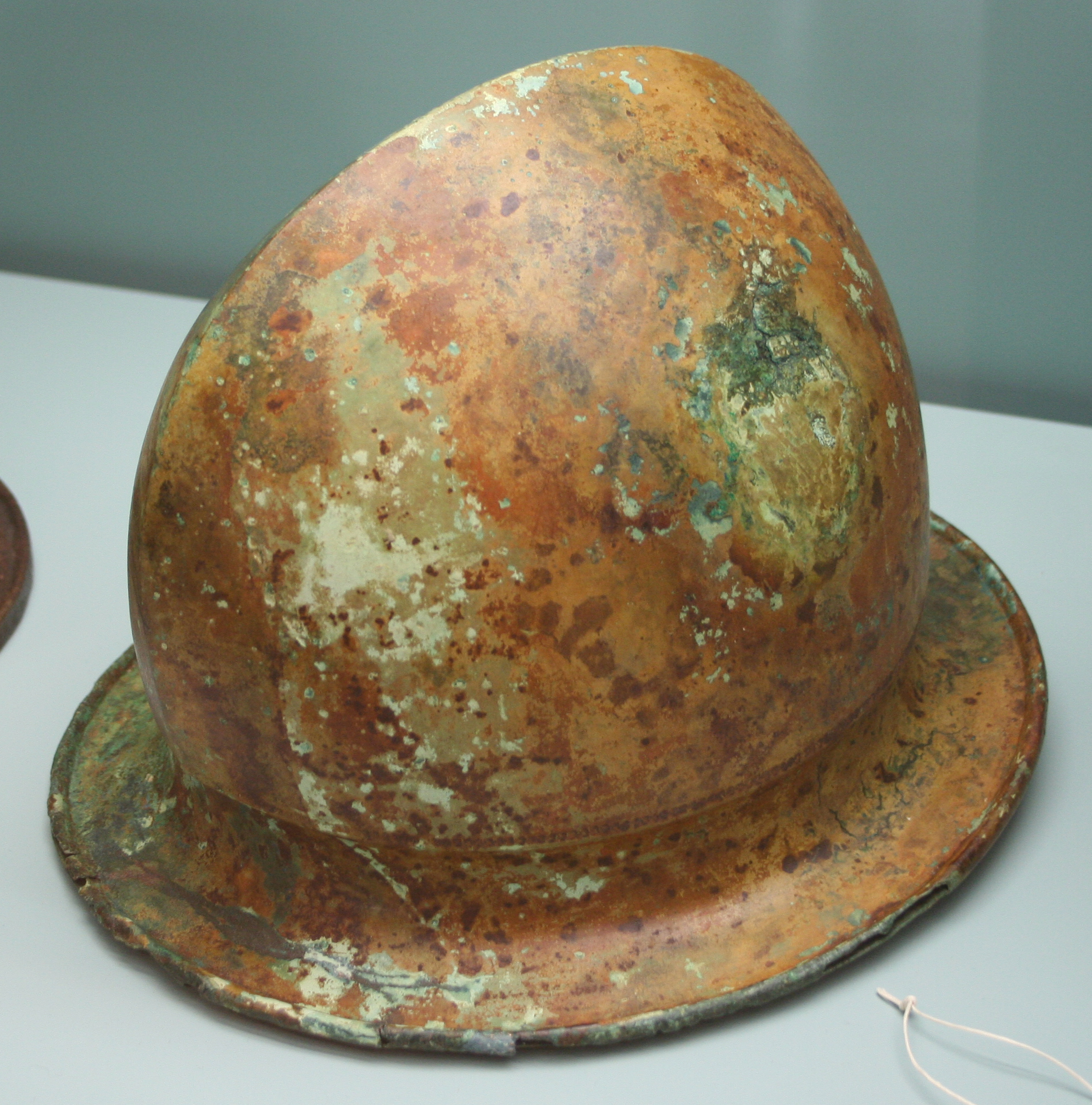 Negau type helmet, excavated at Hallstatt Archaeological Site in Vače (Carniola, present-day Slovenia), kept by Museum of Prehistory and Early History (Berlin) (Museum für Vor- und Frühgeschichte, Berlin)